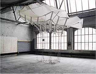 "Survival kit",parachute, cotton fabric, ribbons, pigeonwire, 2005